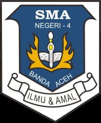 That is a logo's of senior high School 4 at banda aceh